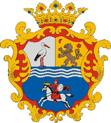 Coat of arms of the county Jász-Nagykun-Szolnok in Hungary